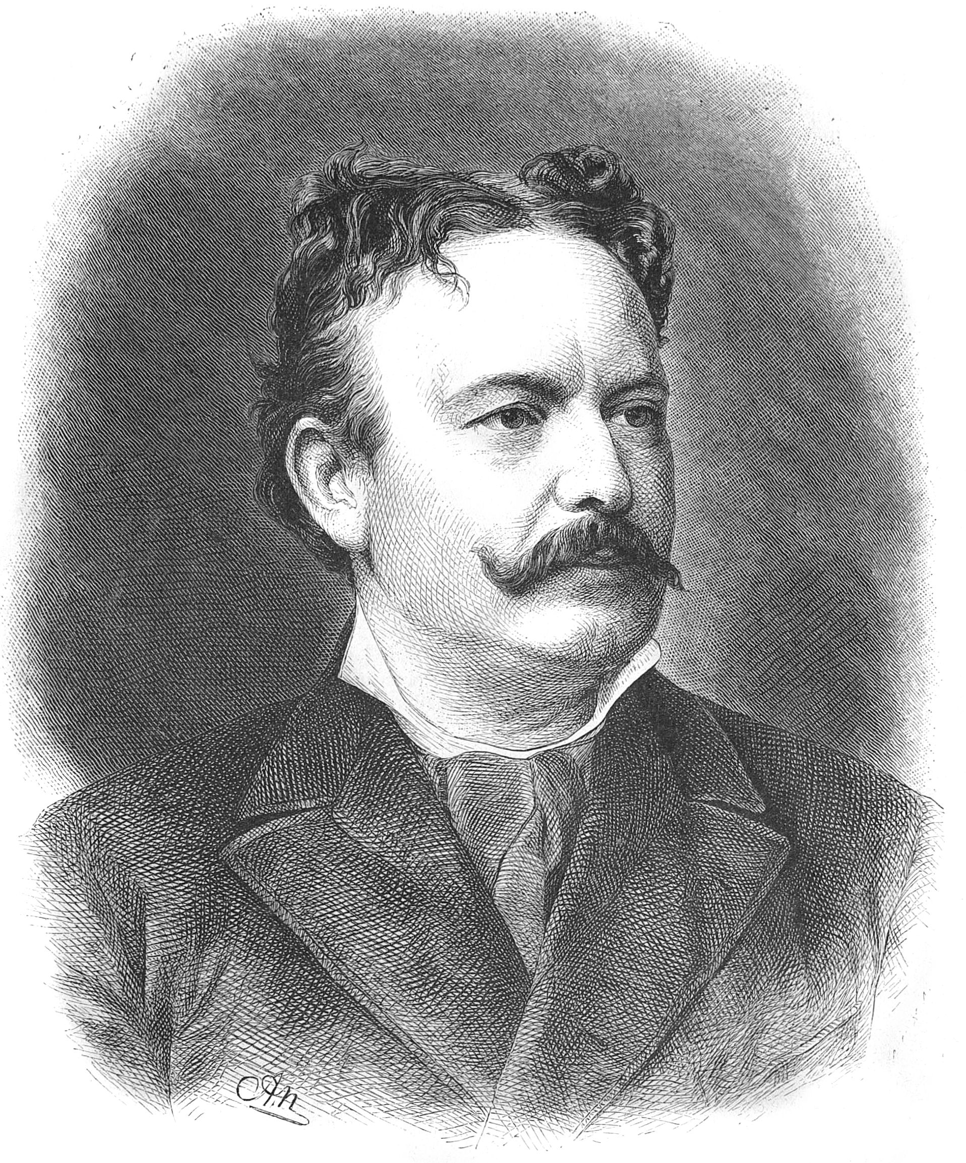 caption: "Karl Gussow. Nach einer Photographie auf Holz gezeichnet von Adolf Neumann."